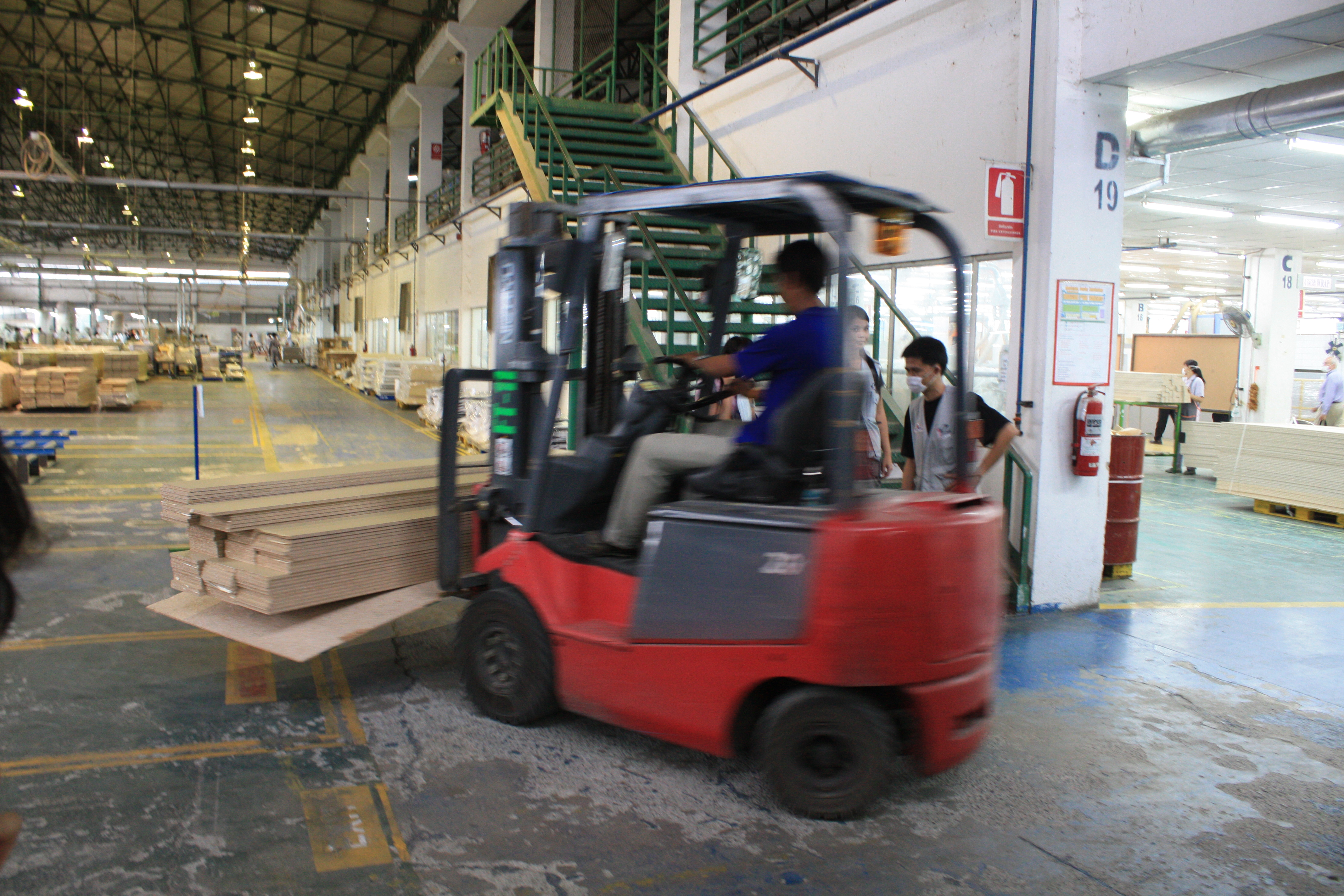 A typical factory in Chachoengsao.